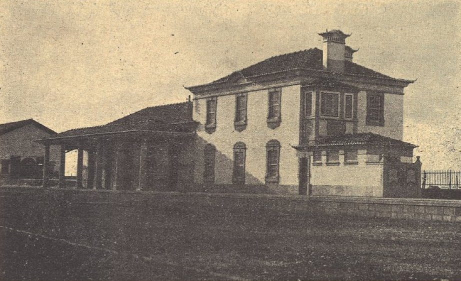 Construction of the Fronteira Railway Station, in the Portalegre Railway, in Portugal. This photograph was published on the Gazeta dos Caminhos de Ferro magazine No. 1083, of the 1st February 1933, and scanned by the Hemeroteca Municipal de Lisboa.